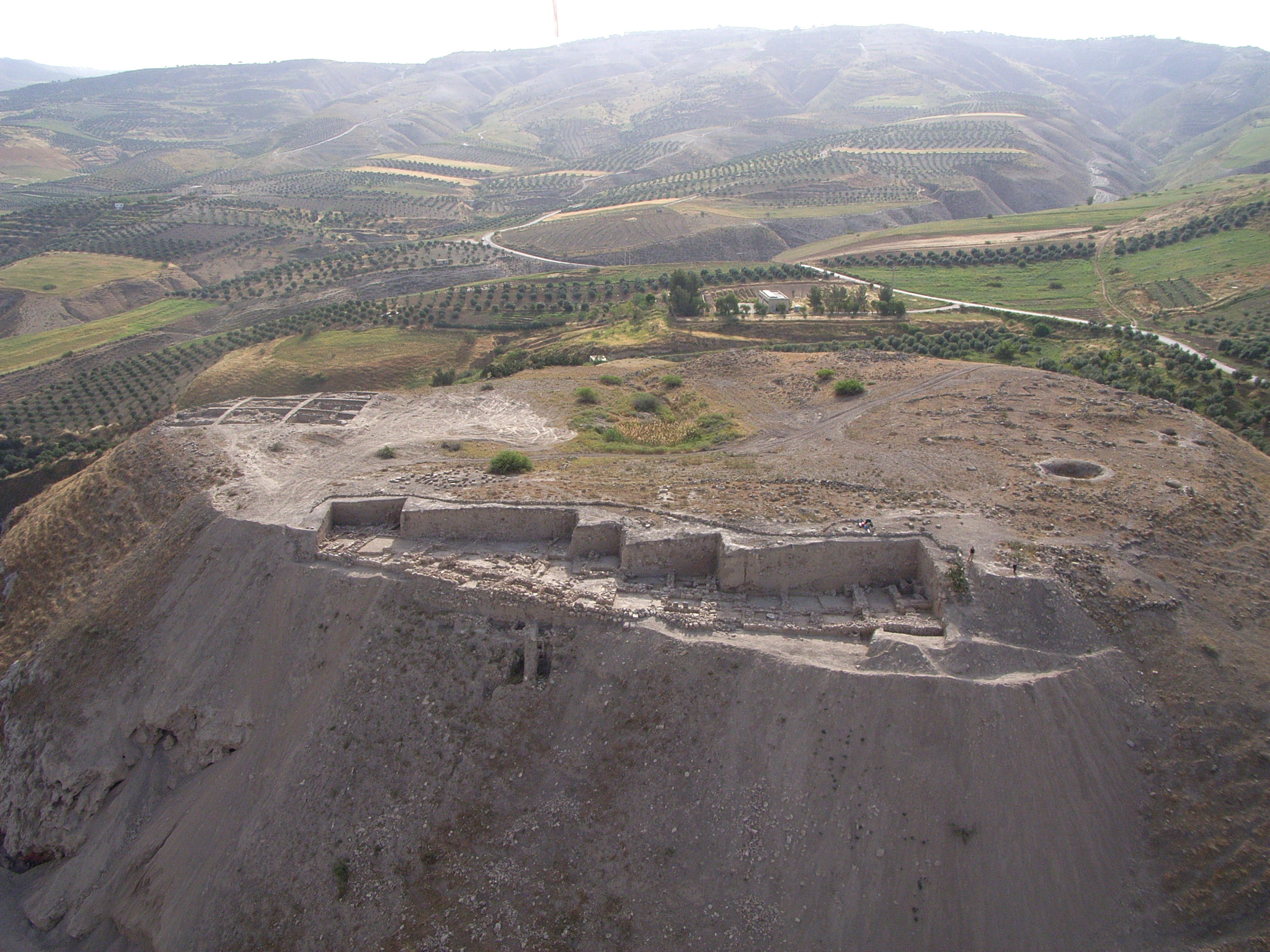 Tall Zira'a - made in spring 2008 - from West